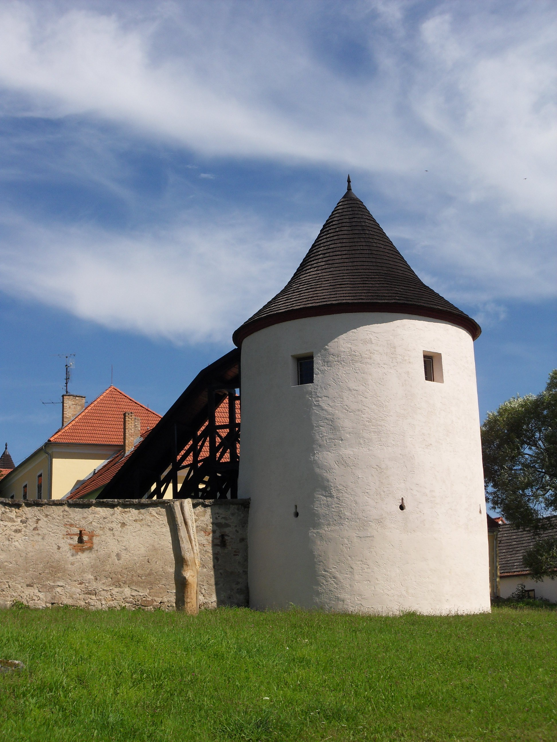 Žumberk fortress, Žár, České Budějovice district, Czech Republic - OpenStreetMap(Info)